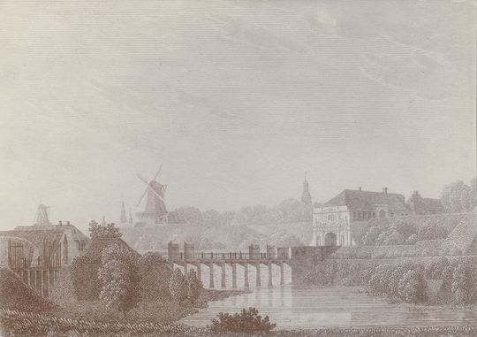 The ravelin and terrain outside Nørreport in Copenhagen before it was demolished in 1859. The two windmills areRosenborg Mølle and Gothersgades Mølle. Grønttorvet (later Israels Plads) and Frederiksborggade was established in the grounds in the 1870s.